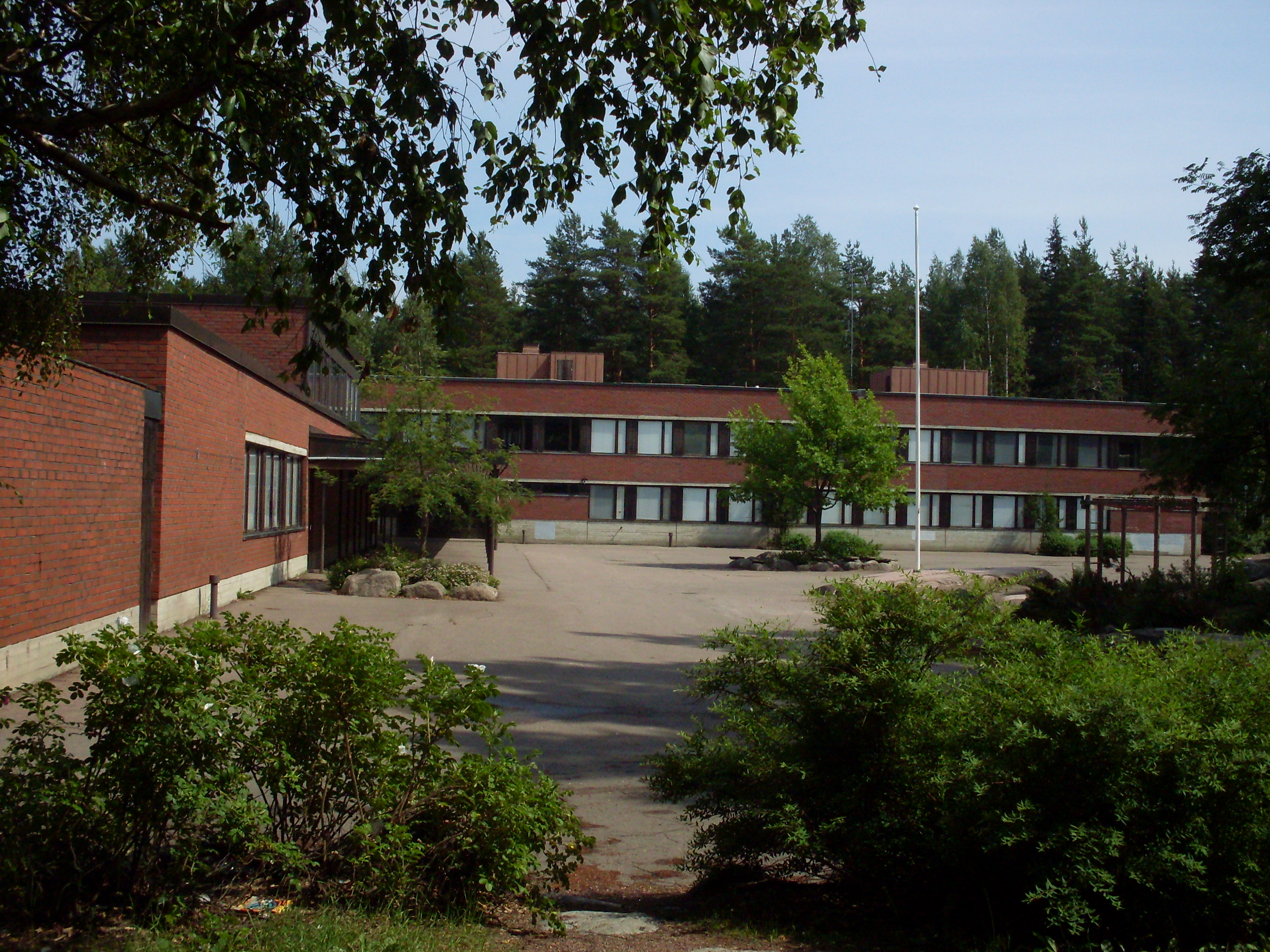 Aittakorpi School.